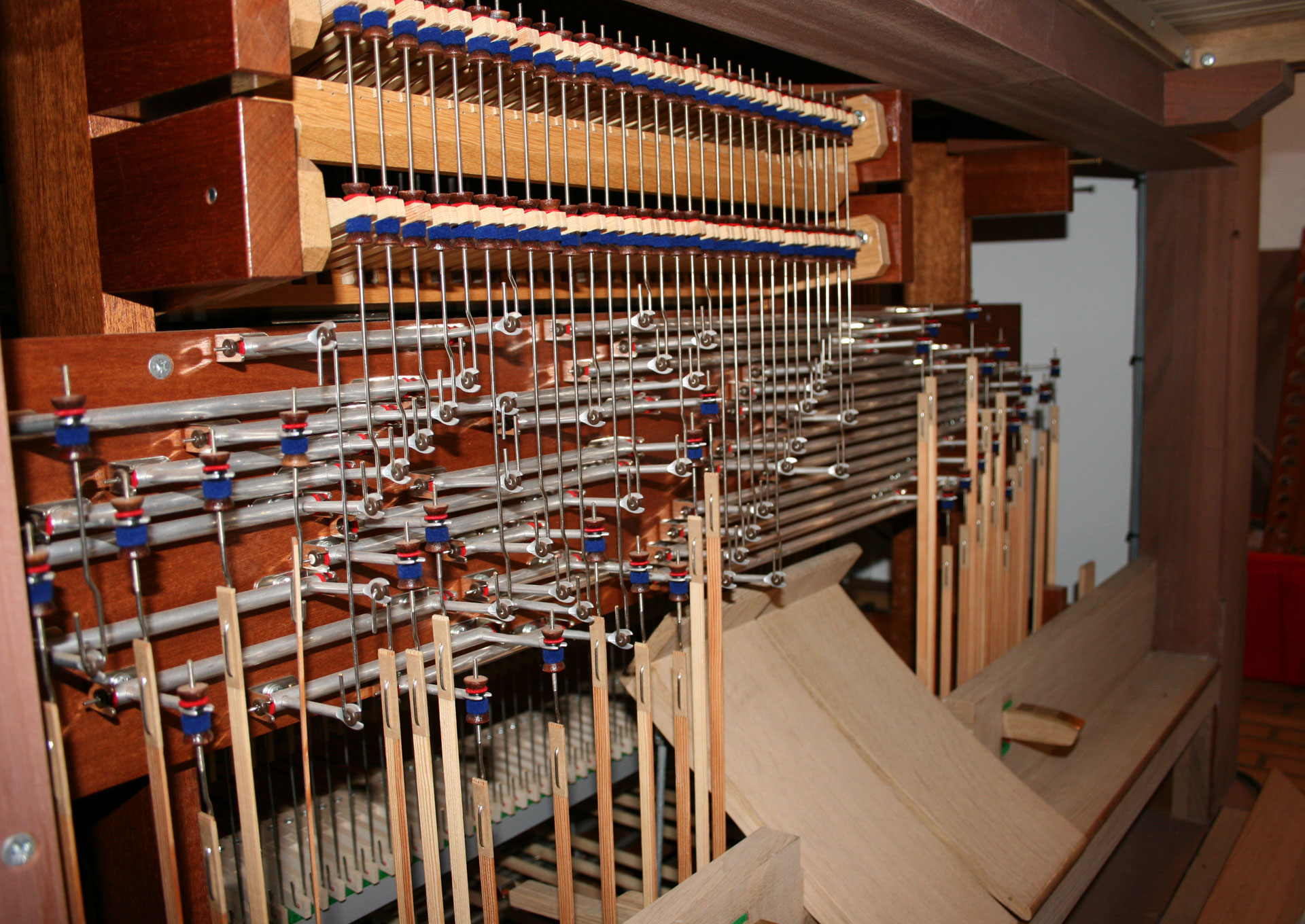 A look inside the (mechanical) tracker action of the console of the pipe organ in Jørlunde church. Organ builders: Frobenius (2009)